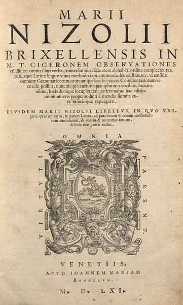 Marius Nizolius (1498—1576) In M. T. Ciceronem observationes